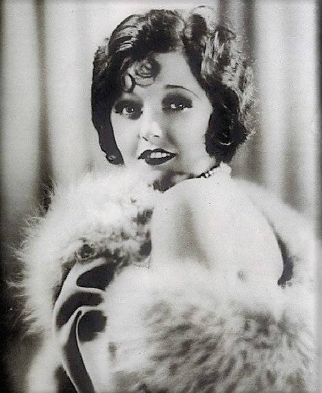 Doris Dawson